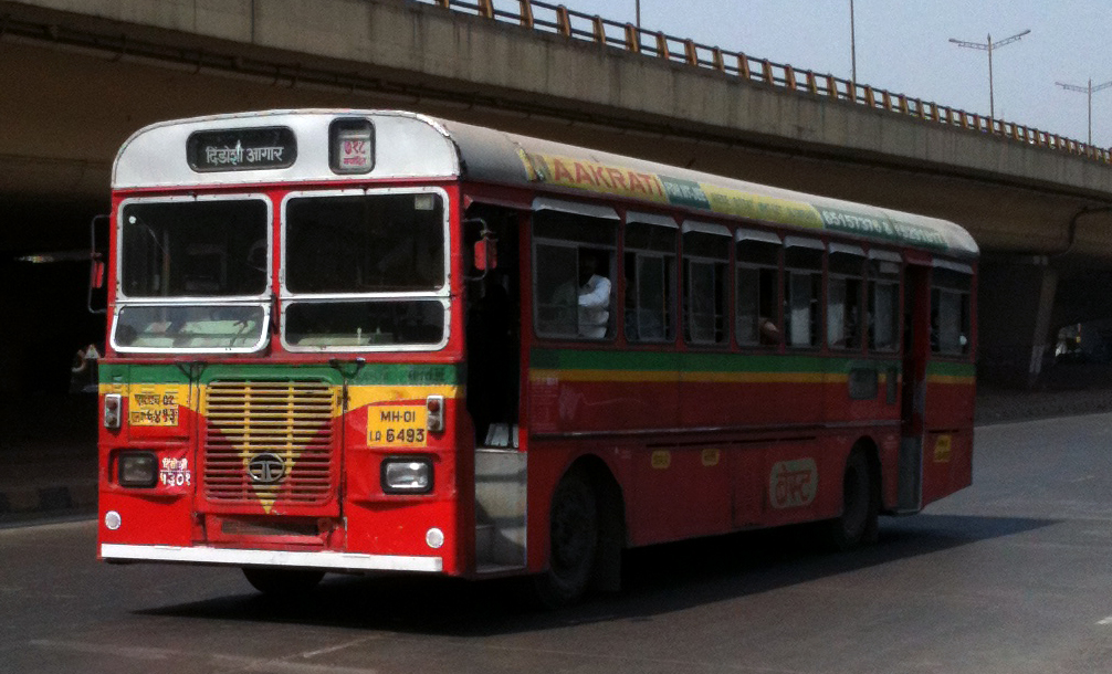 A Tata Motors Bus operated by BEST in Mumbai.